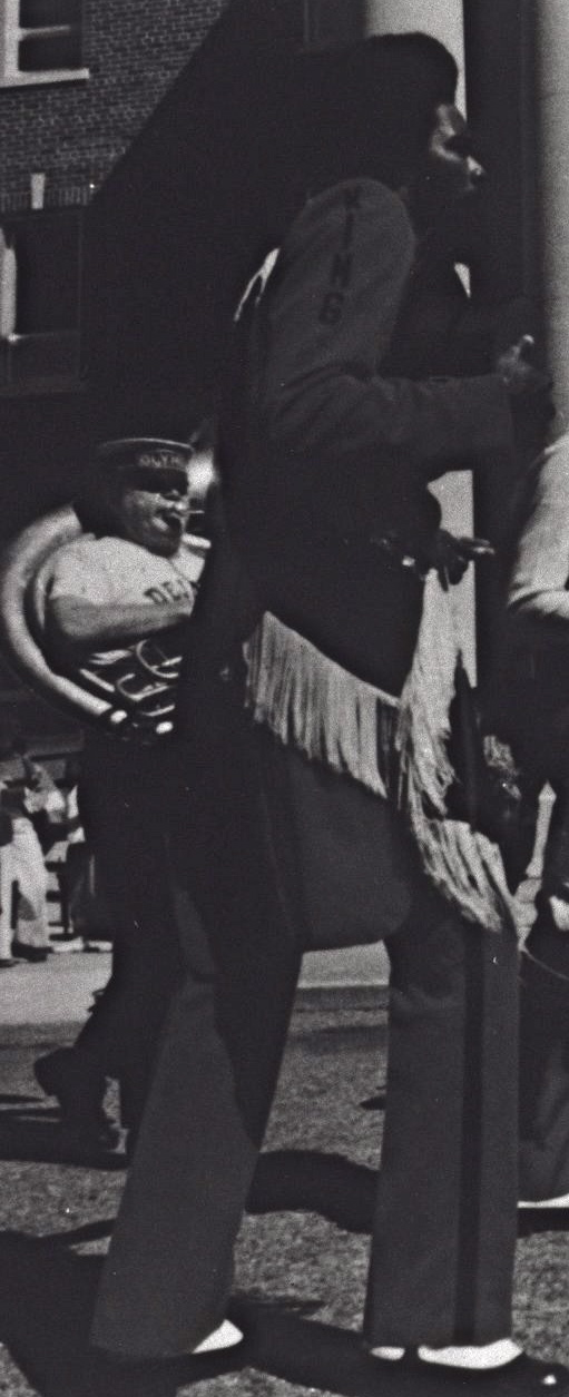 New Orleans Marine Hospital, 1981. "Mourners pass in front of the hospital". Shows "jazz funeral" style procession to mourn closing of Public Health Service Marine Hospital. "King" Richard Matthews seen leading procession as grand marshall; behind him Musician Allan Jaffe seen at left playing bass horn.